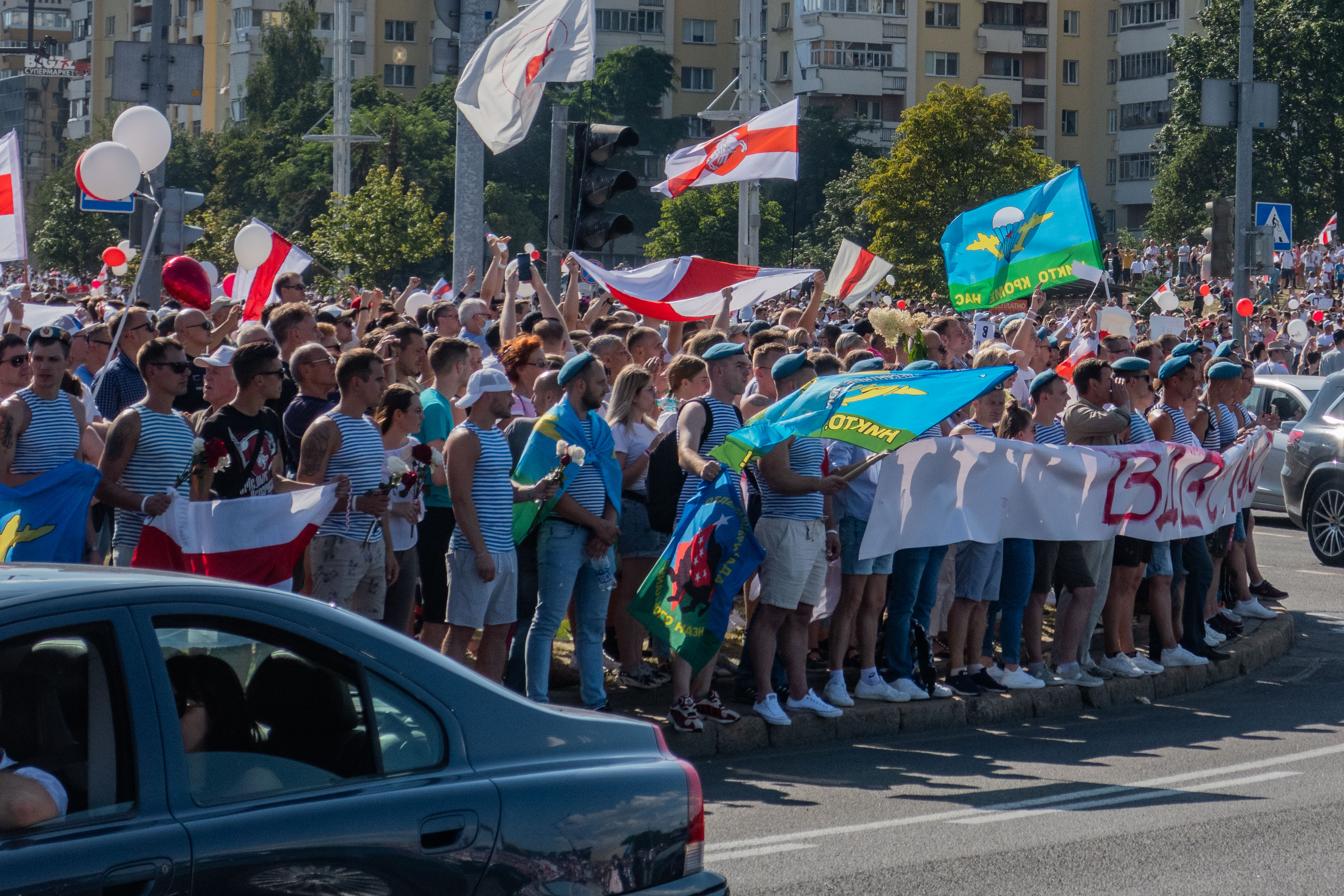 Protest rally against Lukashenko, 16 August. Minsk, Belarus